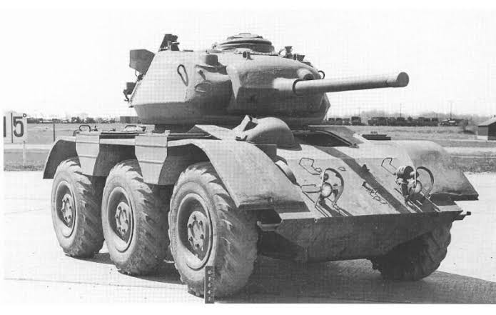 M38 Wolfhound armoured car fitted with the turret from the M24 Chaffee light tank.